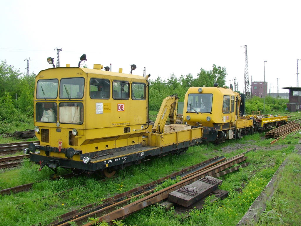 Track maintenance car Klv 54-0006 of Deutsche Bahn at Oberhausen MOW depot, together with a newer car of type GAF100